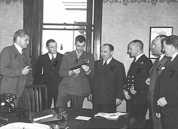 The Executive Committee, Army Inventions Directorate, examine with interest a recent submission. identified personnel are:- Dr R.V.D.R. Woolley, Chief Executive Officer, (1); Dr A.S. Fitzpatrick, Chief Technical Officer, Army Inspection Division, (2); Brigadier J.W.A. O'Brien, Department of Army, (3); Mr L.J. Hartnett, Chairman, Army Inventions Directorate, (4); Acting Commander N.K. Calder, Department of Navy, (5); Squadron Leader S.R. Bell, Department of Air, (6); Mr E.C. Allan, Secretary, (7).